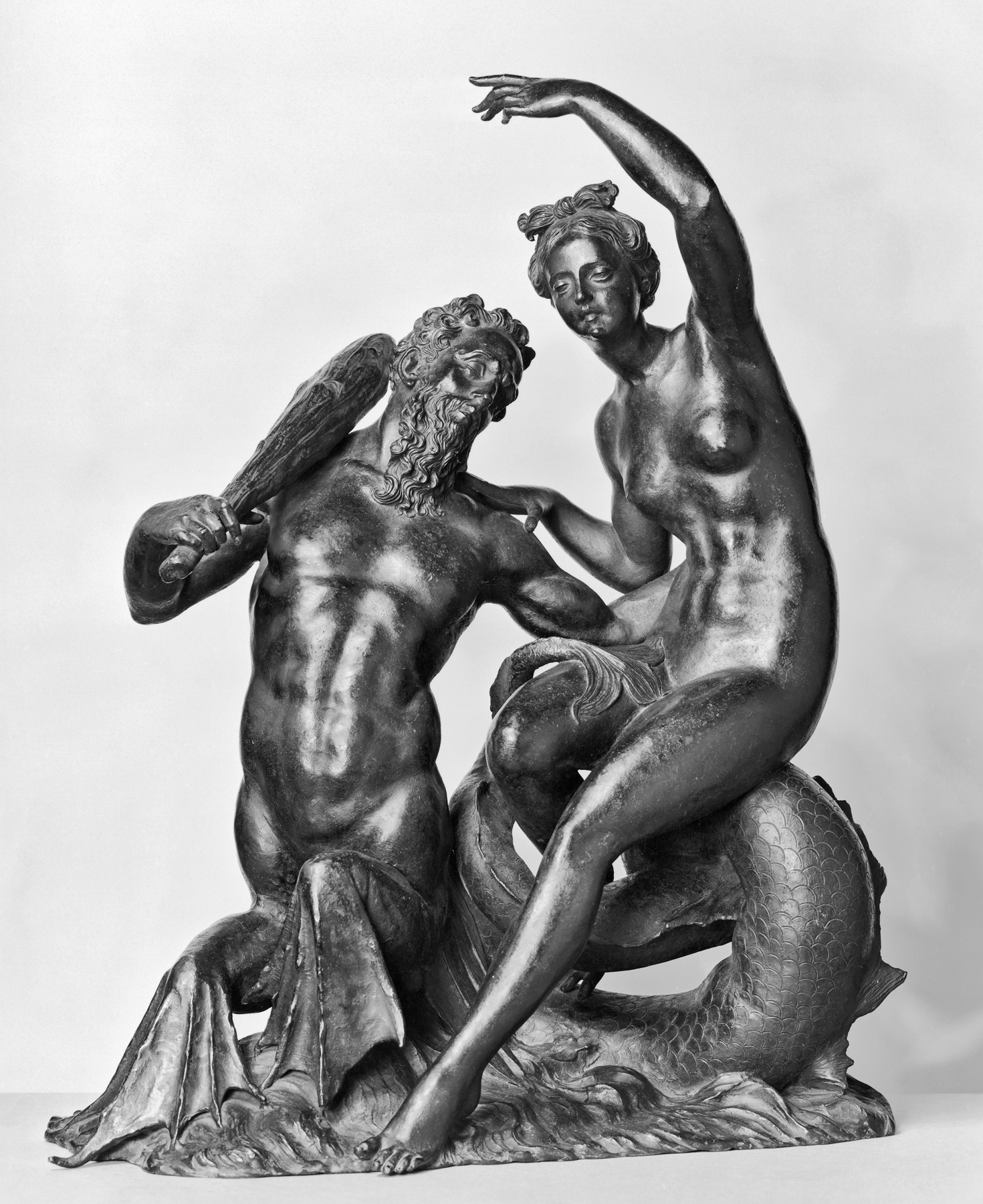 A triton, a minor sea god that was human above the waist, had legs like a horse but webbed, and a long, fish like body playfully cavorts with a nereid or sea nymph. Such pairs may be depicted accompanying Neptune, ruler of the seas.